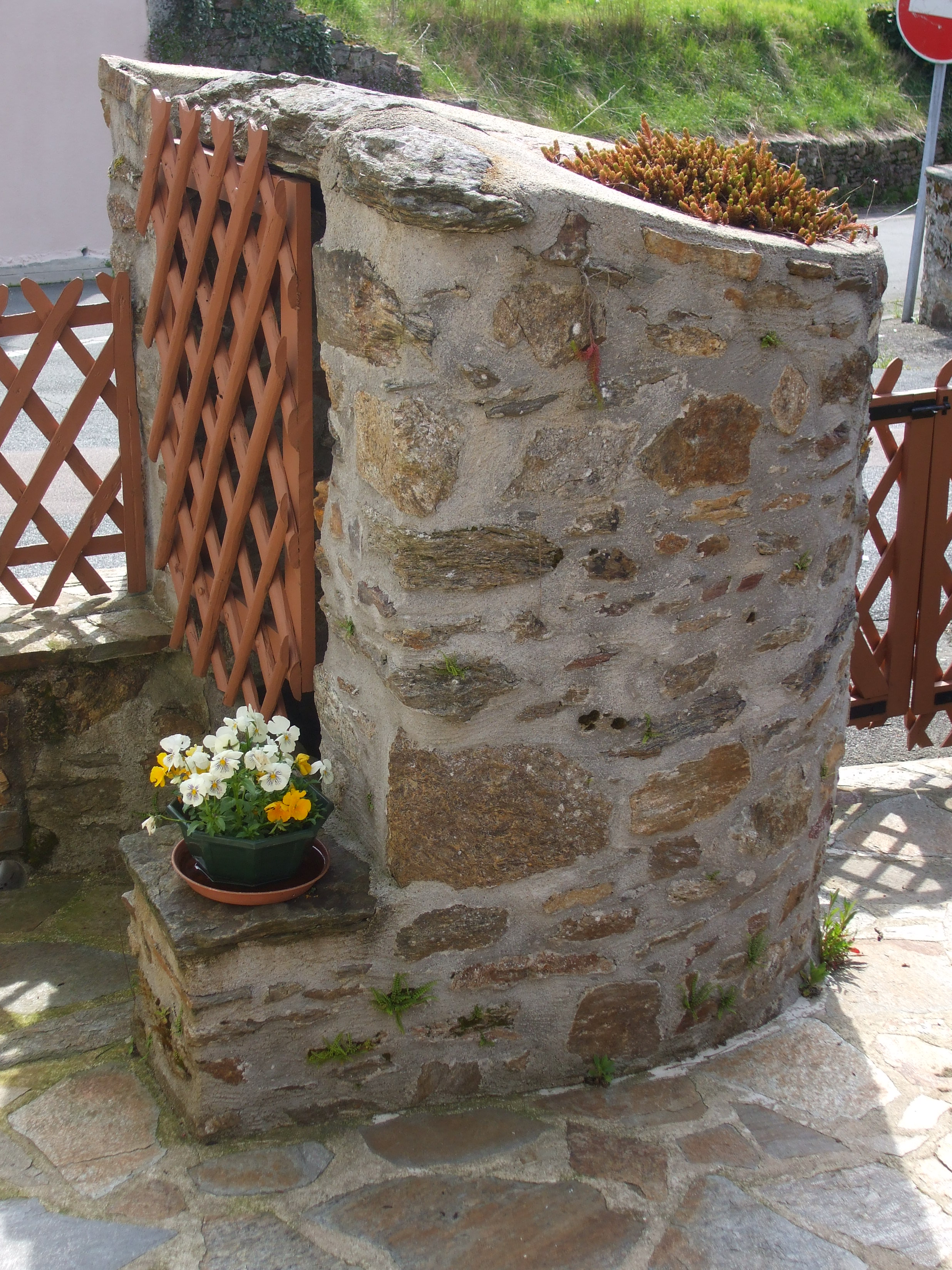 Châlus, Haute-Vienne, France, historical well